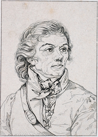 Tadeusz Kościuszko